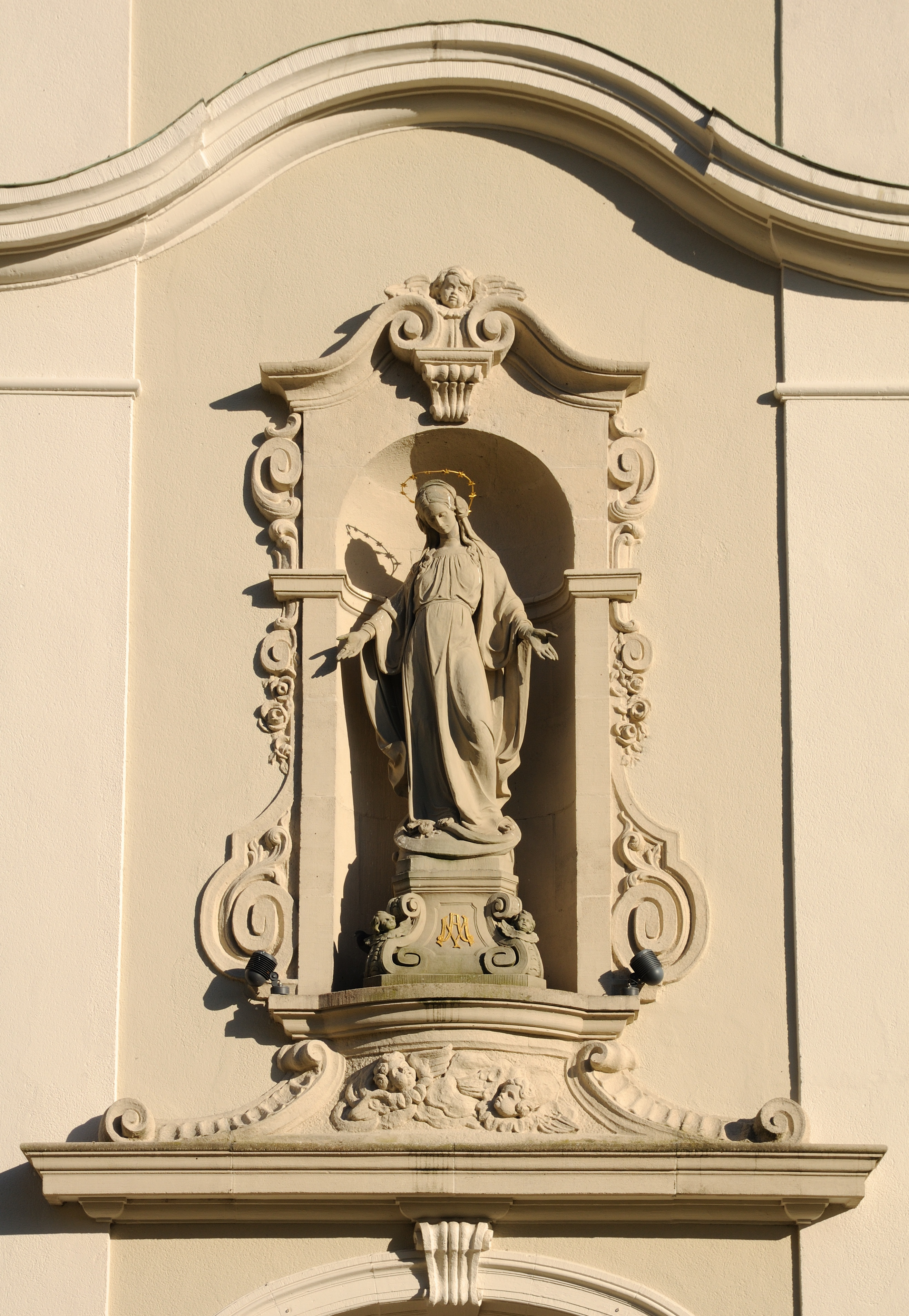 Rheinfelden-Herten: statue of the Virgin Mary at westside of Saint Josephs church